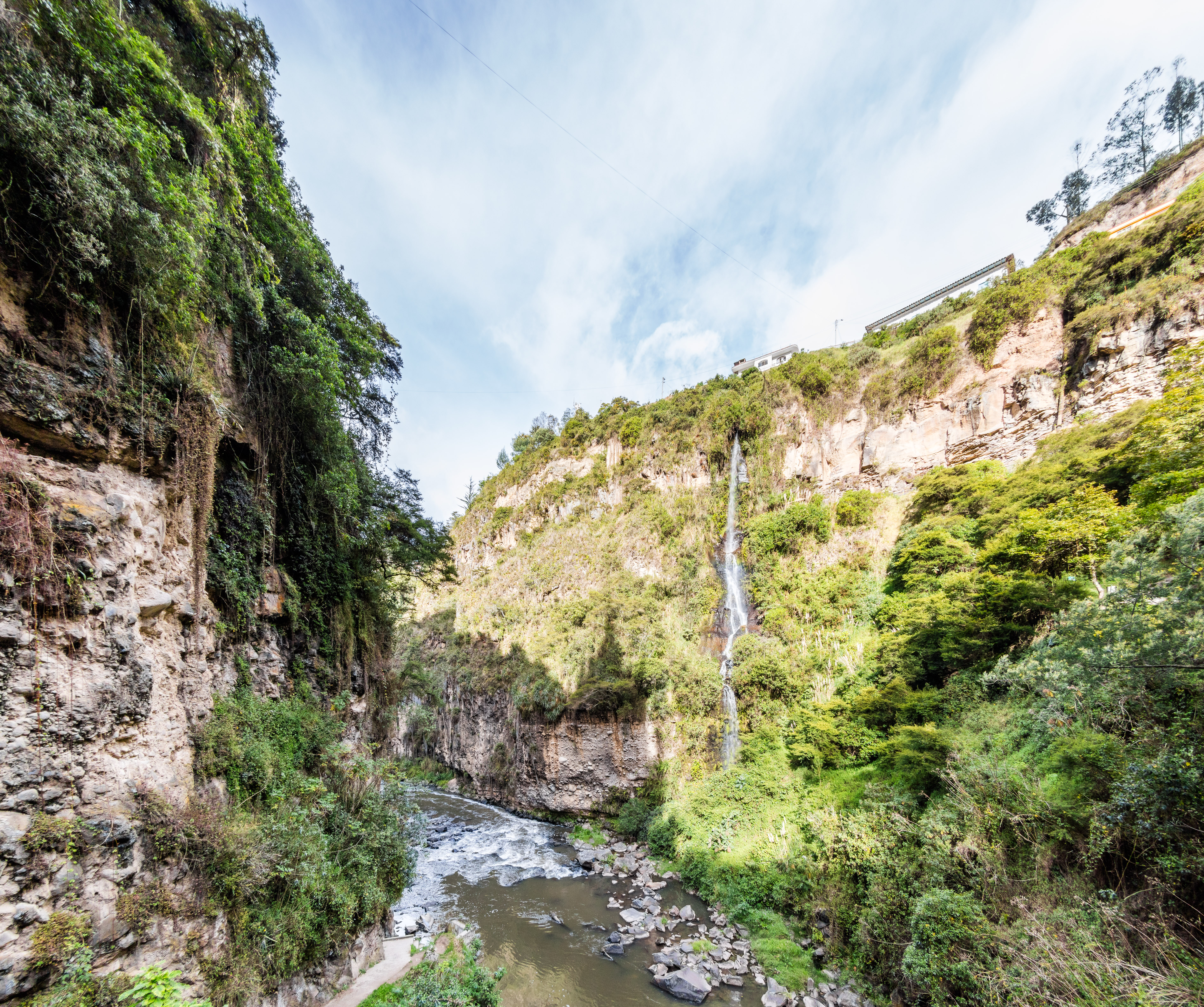 Waterfall of Las Lajas, Ipiales, Colombia